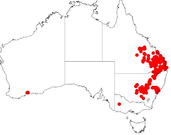 Acacia amblygona Occurrence data from Australasia Virtual Herbarium downloaded from on 8 December 2018